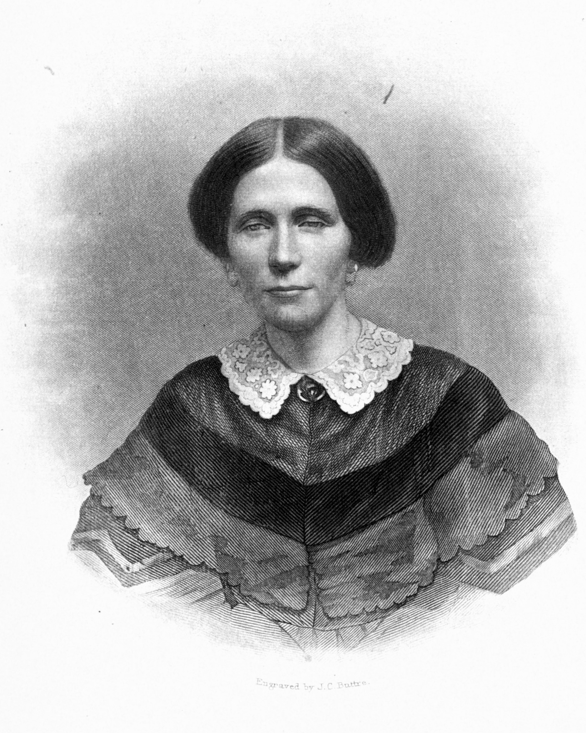 An engraved vignette portrait of a young white woman in 1859; she is wearing her hair center-parted and up off her neck; a white lace collar over a dark knitted shawl.